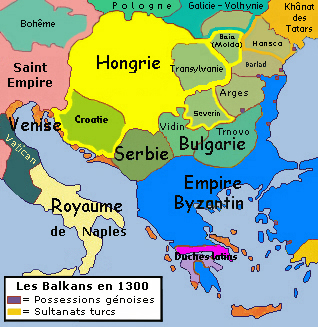 Historic map of Balkan peninsula, 1300